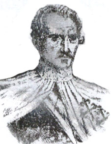 Sebastián Hurtado de Corcuera (d. 1660) — 44th Spanish Governor-General of the Philippines (1635-1644), under Spanish colonial rule.